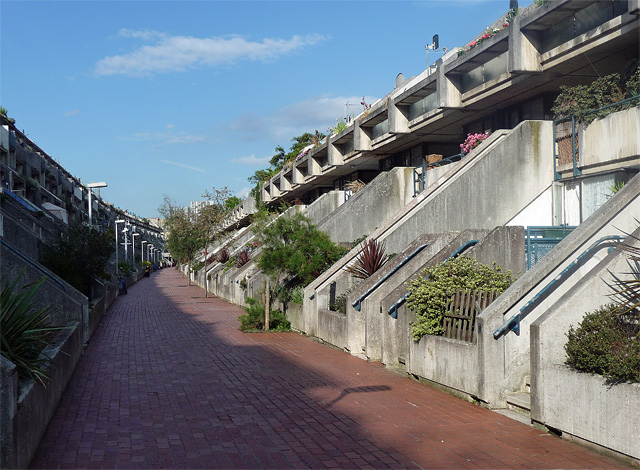 Photo of concrete walkway at Alexandra Road Estate in Camden.